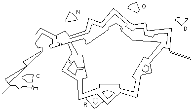 Citadel of Liege in 1711.